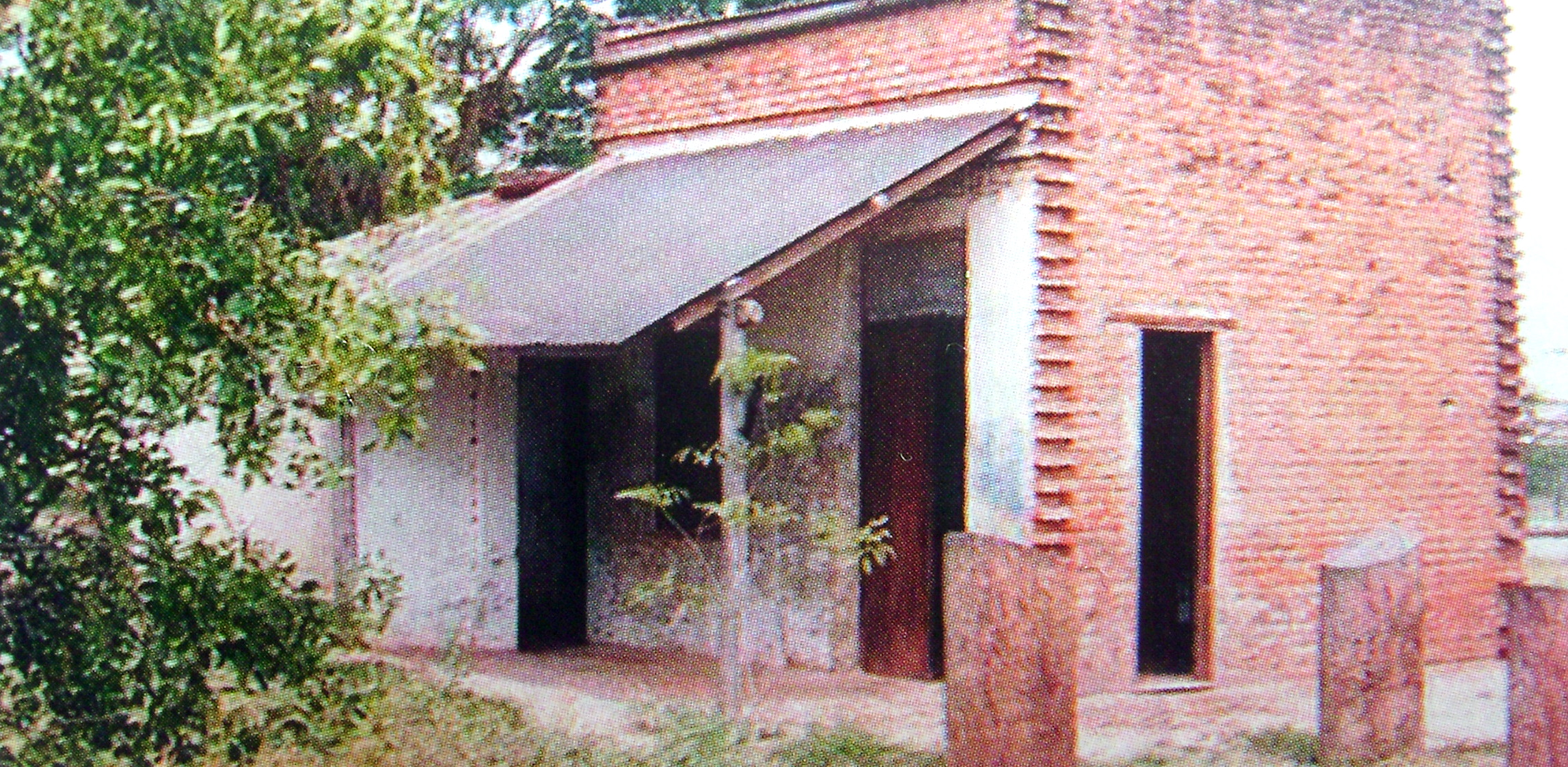 Dr. Esteban Maradona's house in Estanislao del Campo, Formosa, Argentina